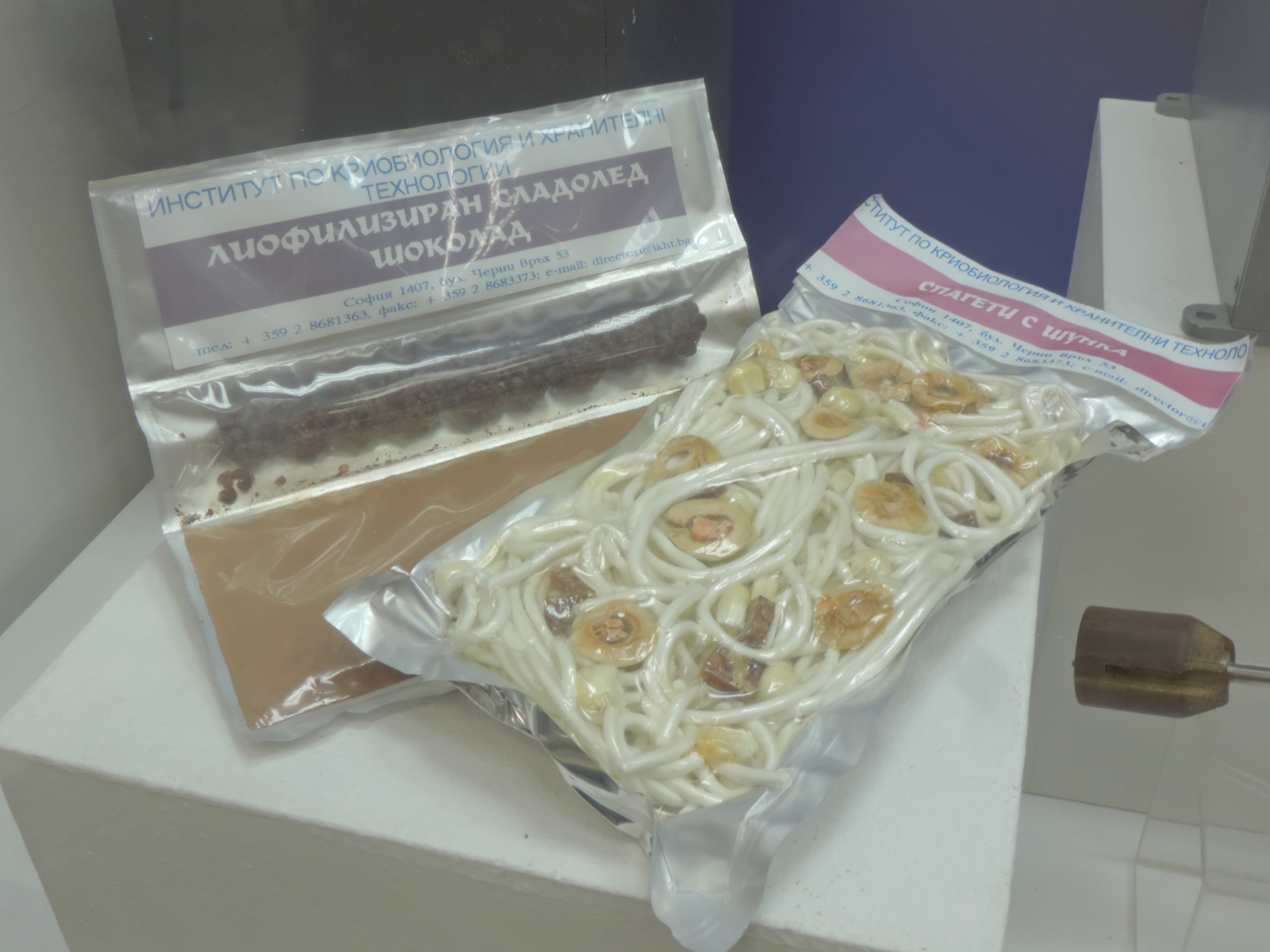 Lyophilized (freeze dried) food - ice cream and chocolate, spaghetti with bacon. Exhibit of the National Polytechnic Museum in Sofia, Bulgaria